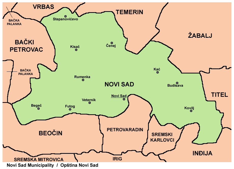 Map of Novi Sad Municipality. Mapa Opštine Novi Sad.